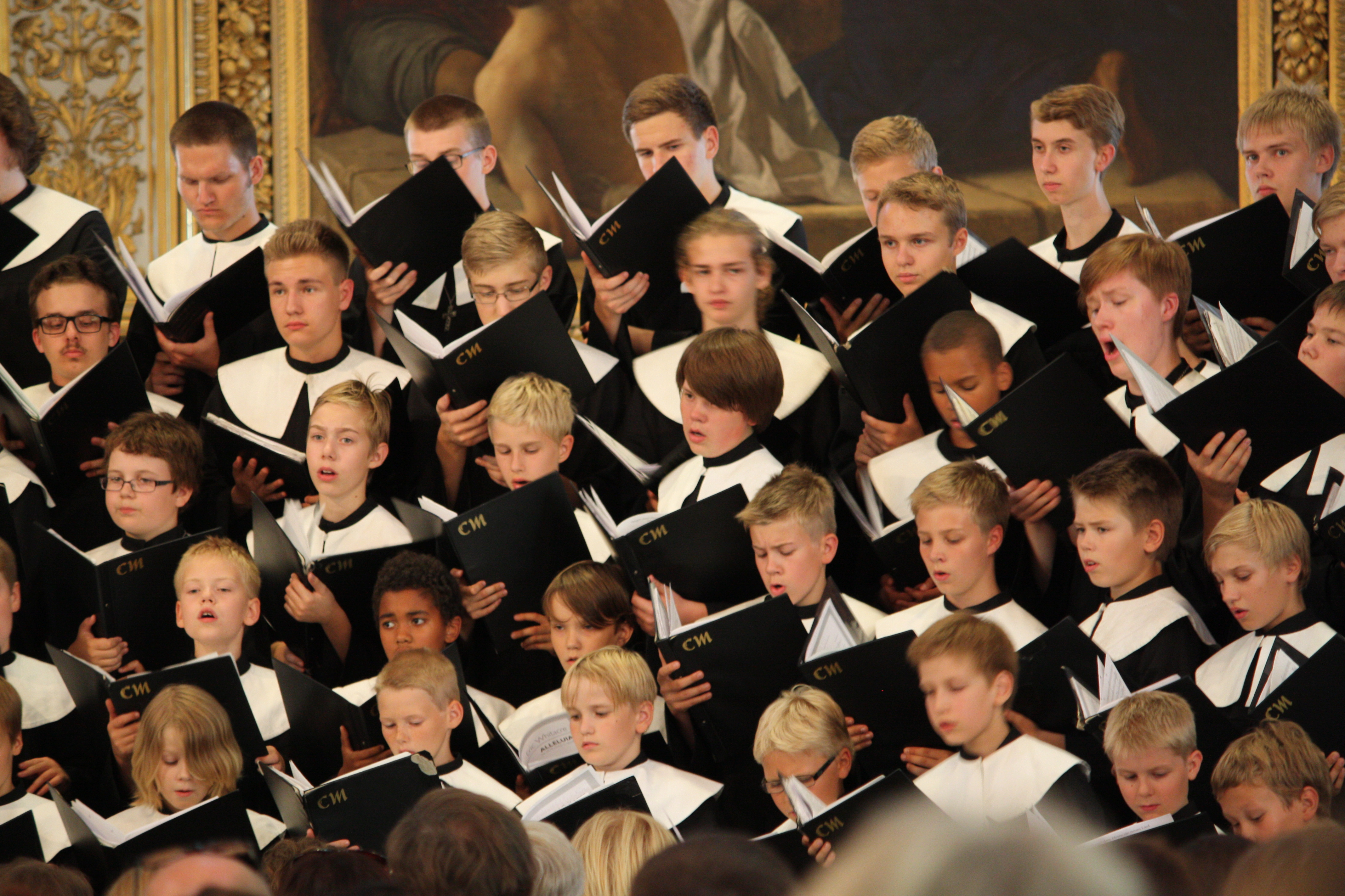 The boychoir Cantores Minores had a consert in the Helsinki Cathedral on the Night of the Arts in Helsinki, 2013.